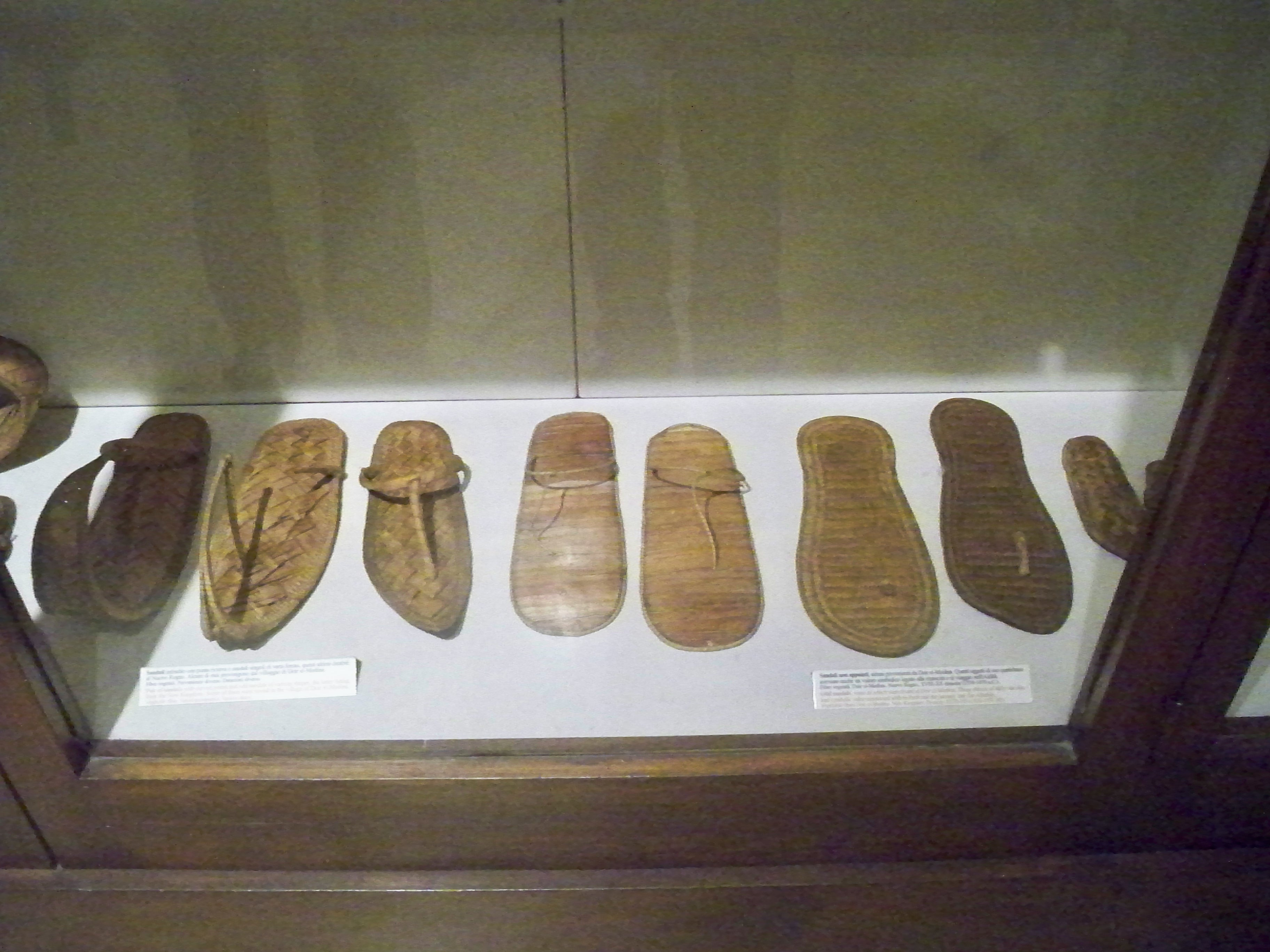 Ancient Egipt flip-flops